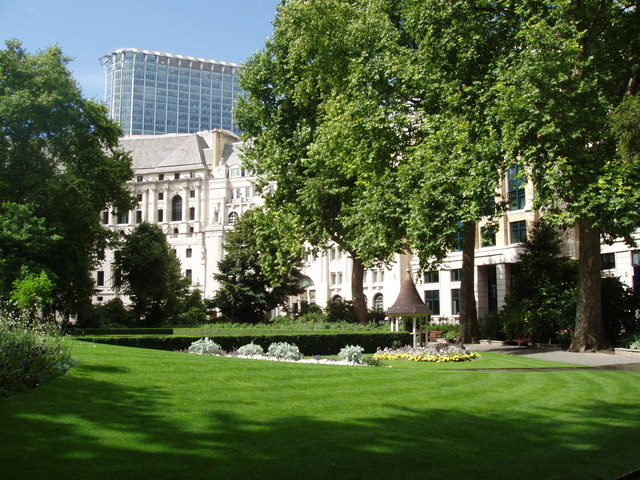 Greenery in the City. Not a person in sight yet this is one of the busiest cities in the world. The City of London is quiet at the weekend and this is the best time to go exploring the streets, passages, alleyways, squares and gardens. Finsbury Circus is the largest of the 150 green spaces in the City and well worth a visit.